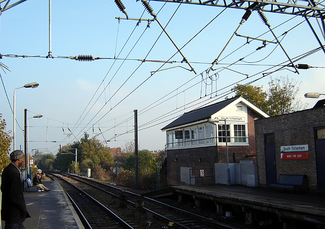 South Tottenham railway station, Tottenham, Haringey, London. 22 November 2005. Photographer: Fin Fahey